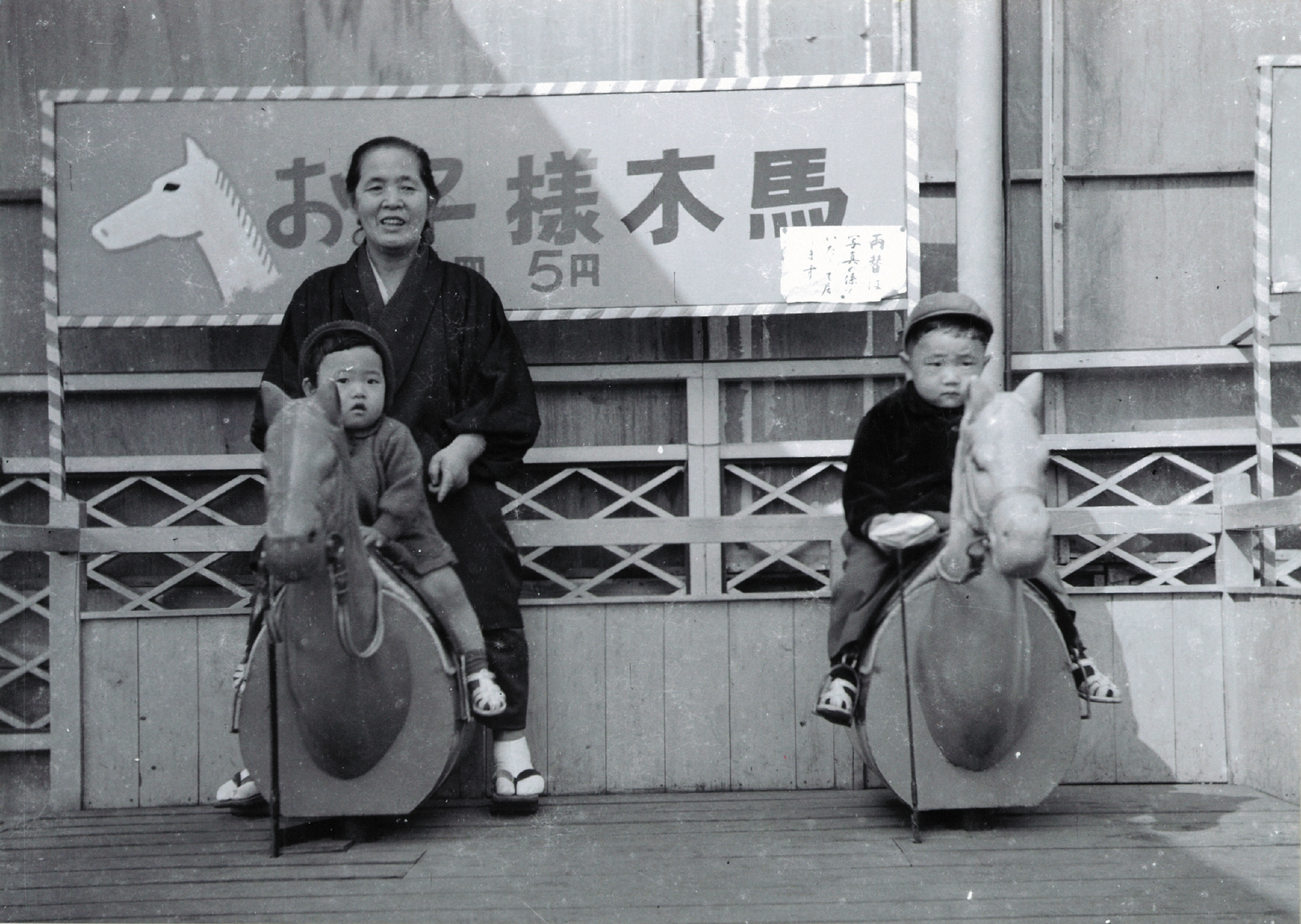 A photograph of the rocking horses installed by Masaya Nakamura in the roof garden of a Japanese department store.